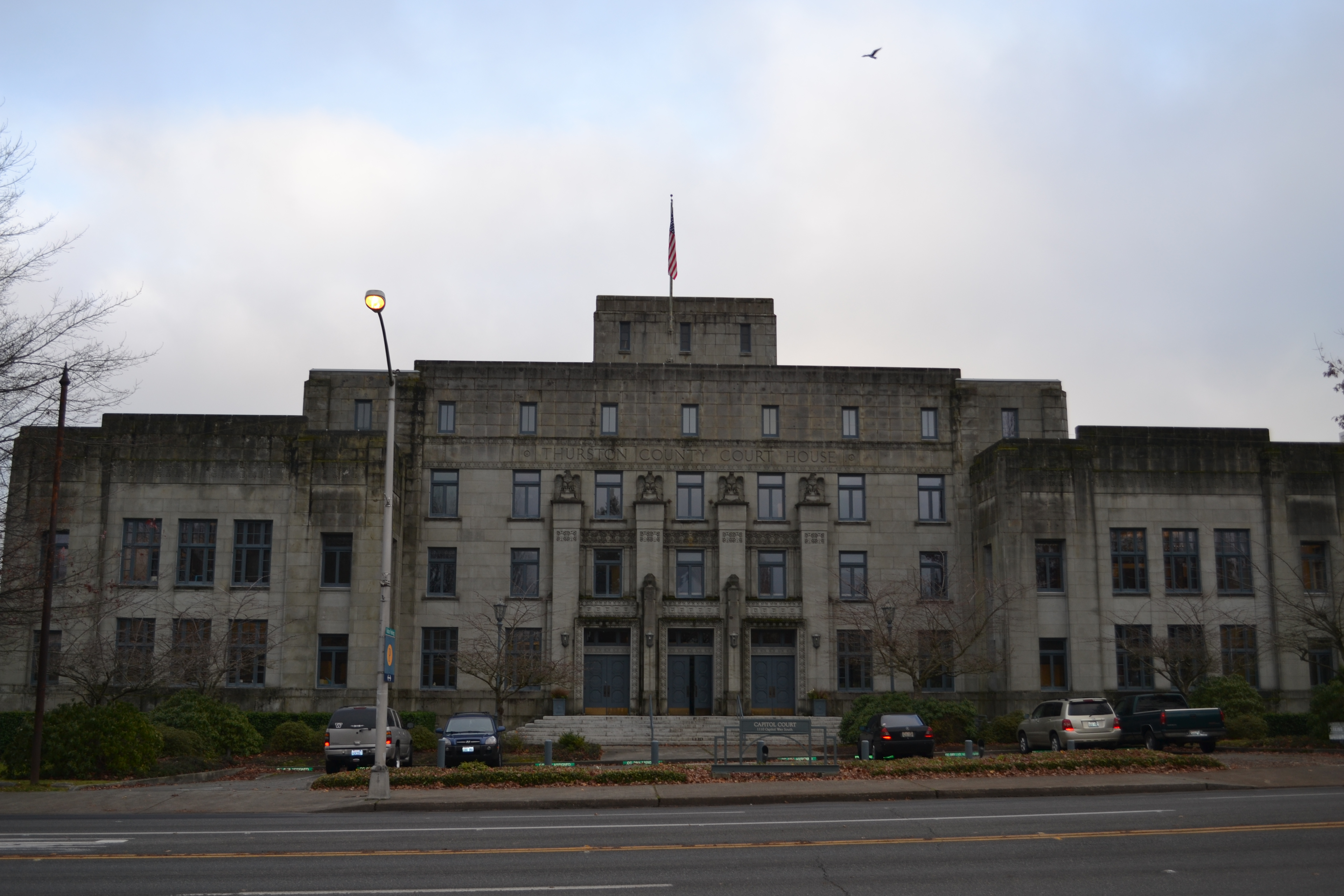 Thurston County Courthouse (Olympia, Washington)